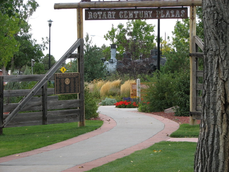 Century Plaza Entry in Cheyenne Botanic Gardens